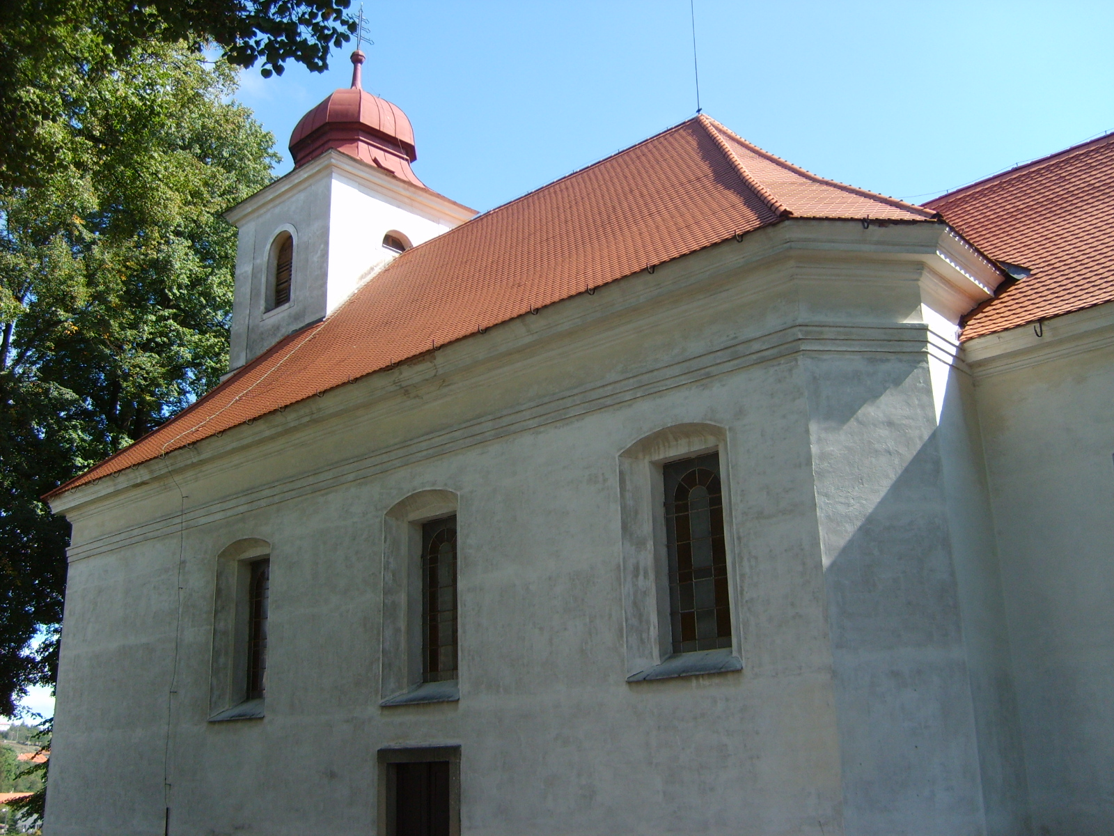 Church of Exaltation of the Holy Cross (1820-22) in Dolní Bělá, Plzeň-North District, Czech Republic